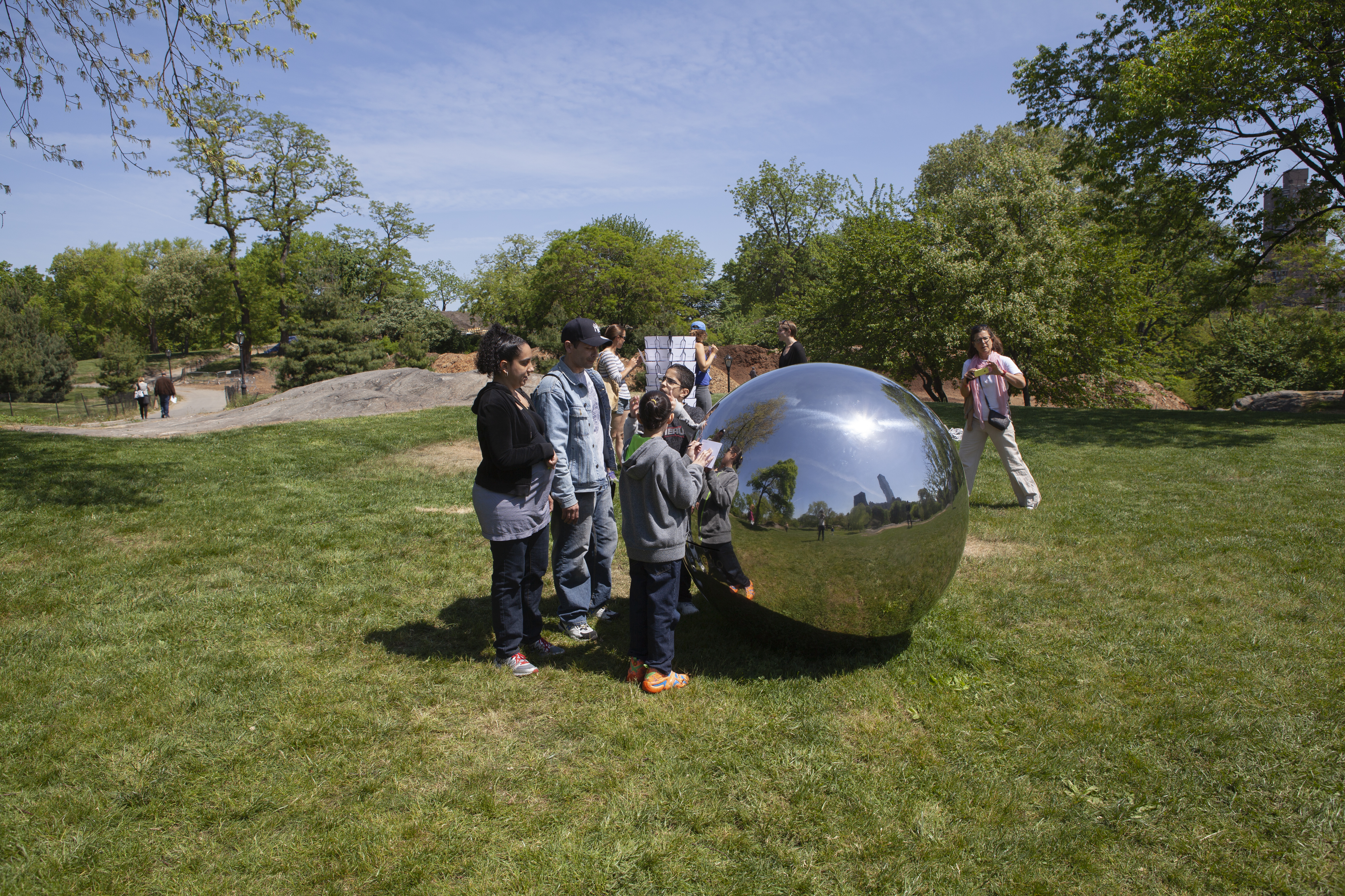 Installation of the work Cartas al Cielo by Alicia Framis, in Central Park New York during exhibition "Drifting in Daylights", May 2015